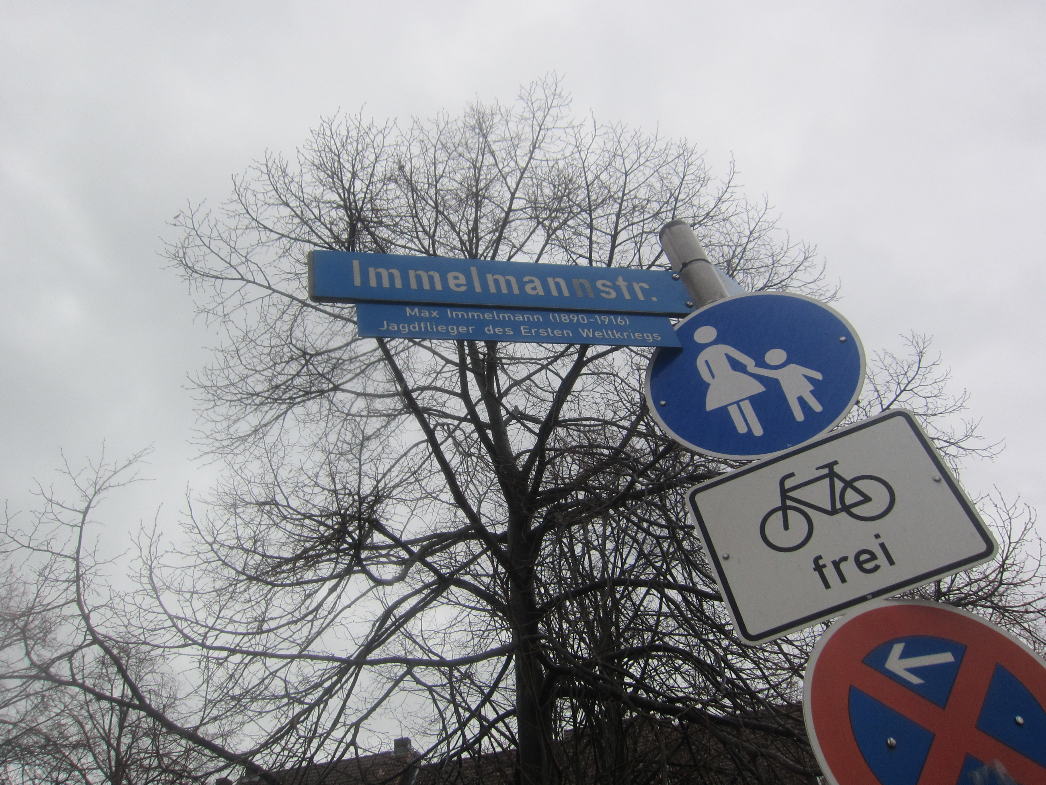 Road sign "Immelmannstraße", Kiel-Holtenau